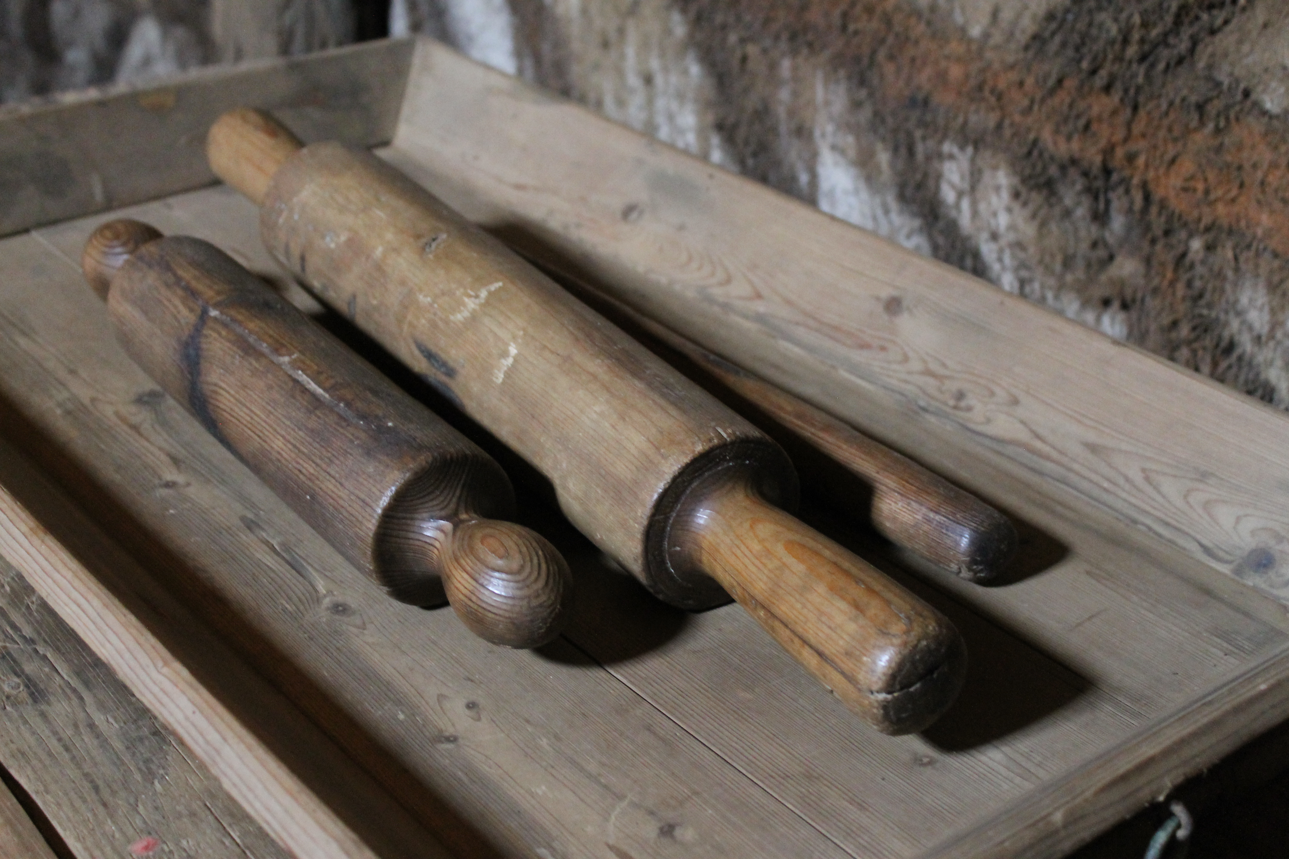 Wooden rolling pins in a bread trough in Glaumbær museum, Skagafjörður, Northern Iceland.